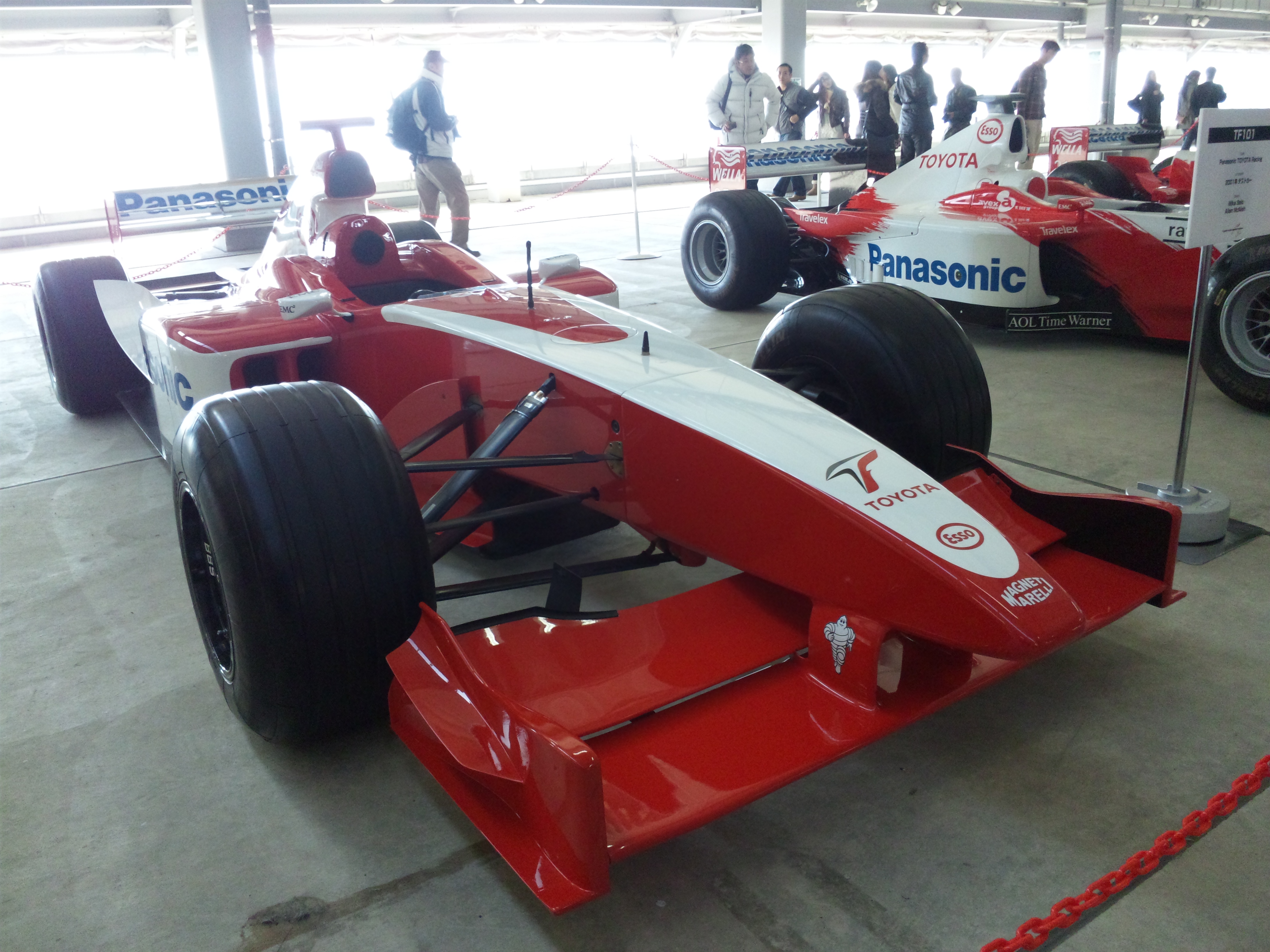 Toyota TF101 exposed at 2010 Toyota Motorsports Festival